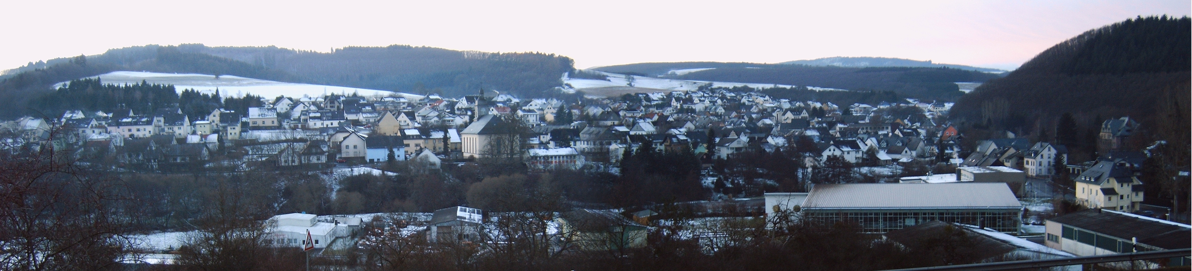 Panorama view of the village of Niederwörresbach, Rhineland-Palatinate, Germany. Photographed by myself.